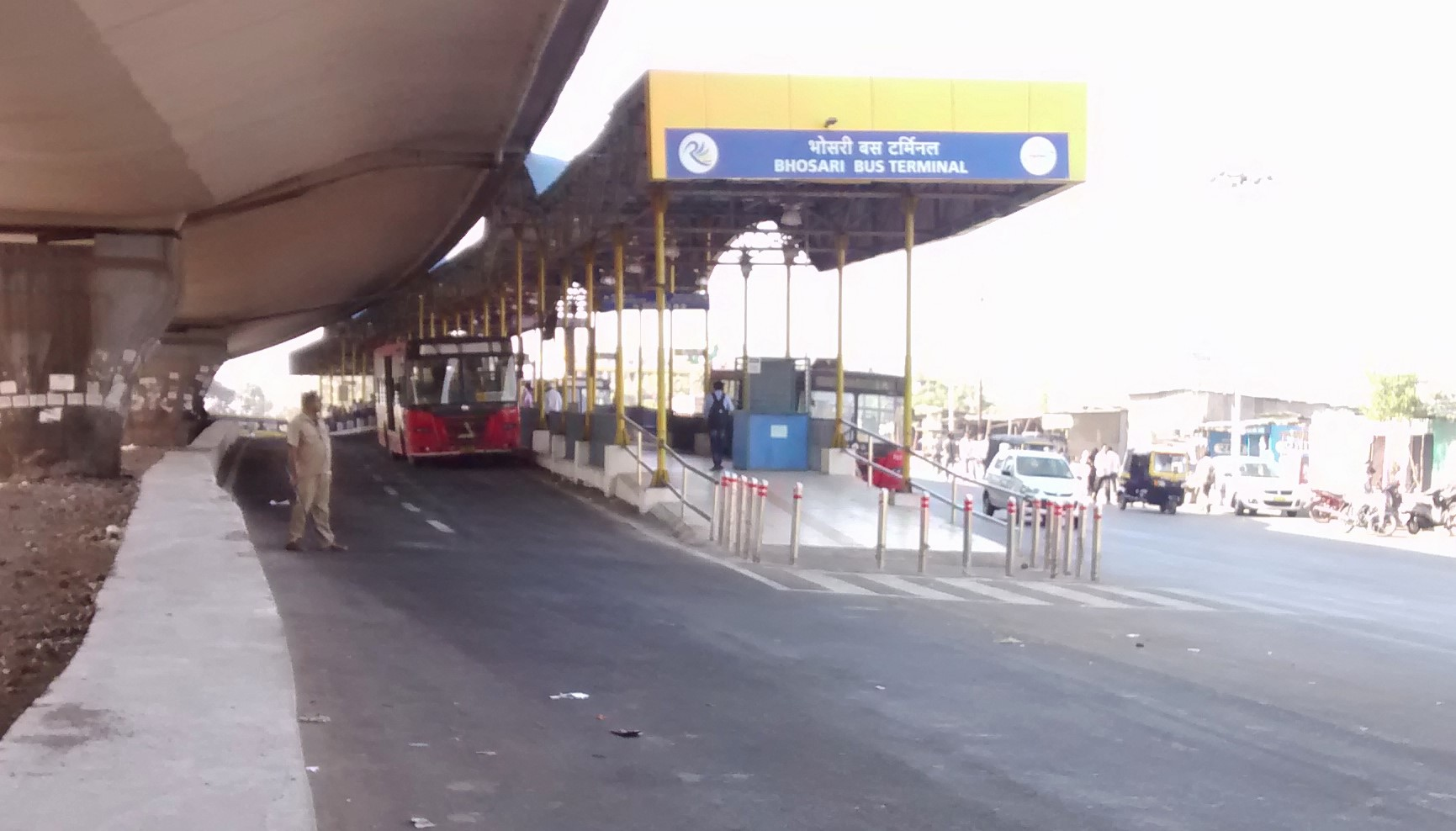 Bhosari Bus Terminal